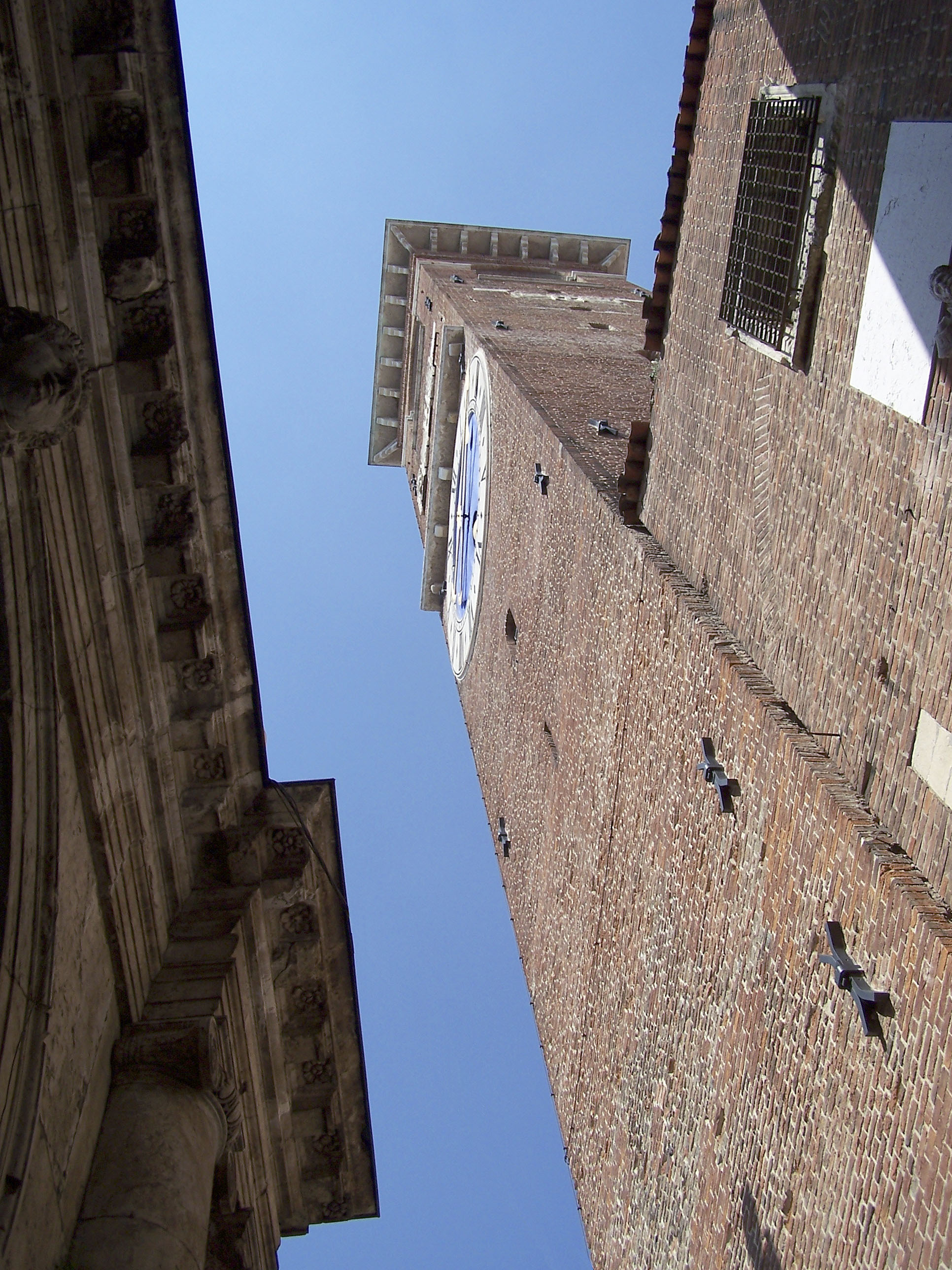 Tower and loggia of the Basilica Palladiana on the Piazza dei Signori in Vicenza, Italy